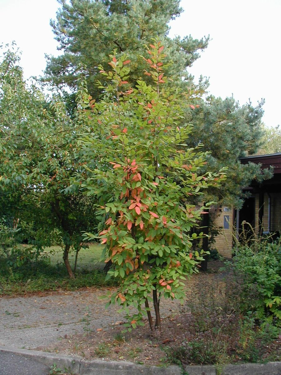 Nothofagus alpina (syn. Nothofagus procera): Habit.Young trees in Denmark. Photo: Sten Porse Removed watermark read: Sten Porse 26.9.2002